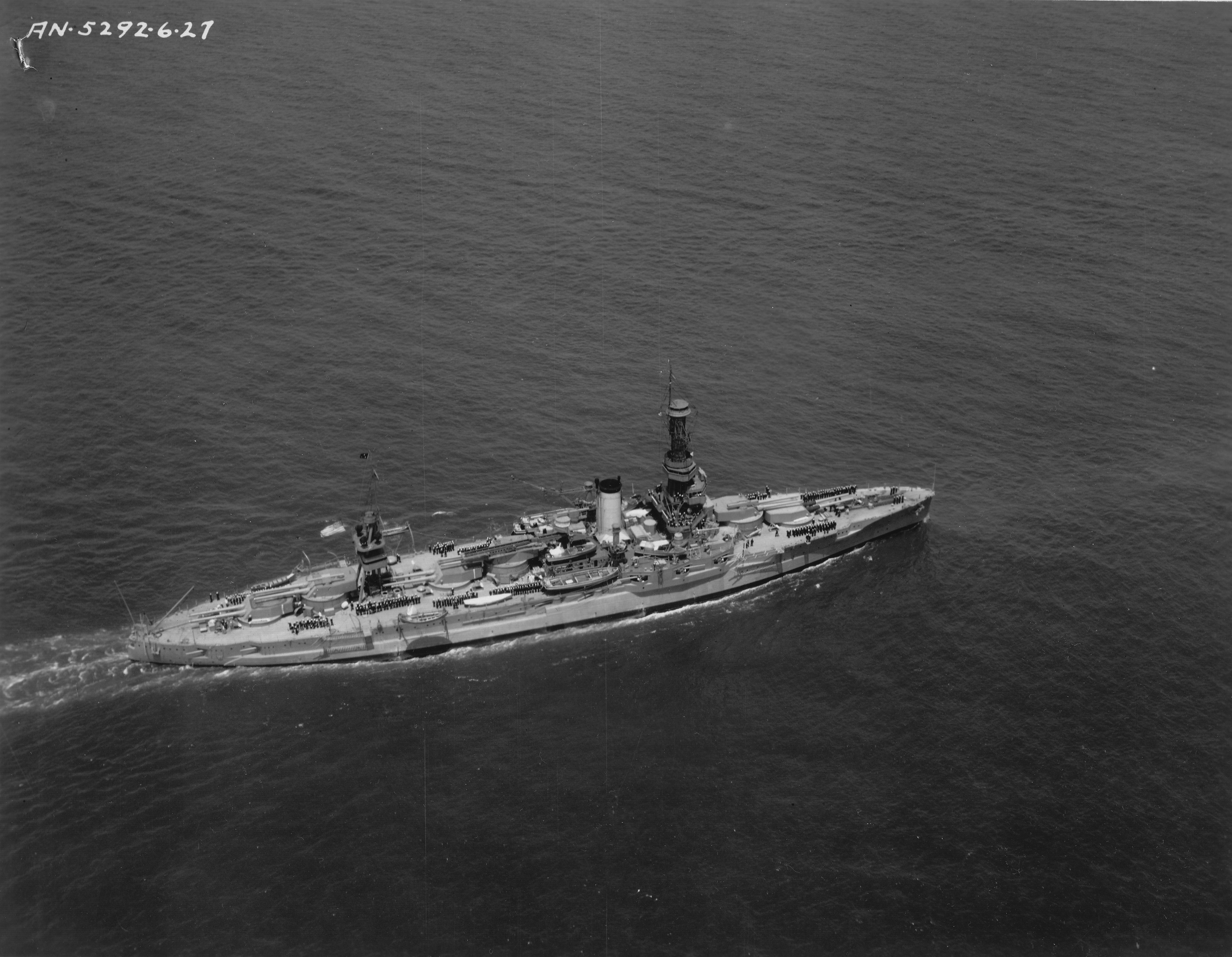 Aerial view of the USS Arkansas during a presidential naval review in Hampton Roads, Virginia, June 4, 1927.